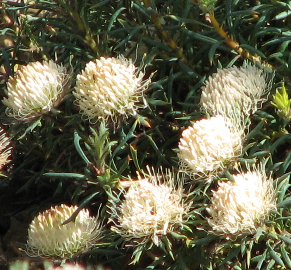 Banksia carlinoides (labelled as Dryandra carlinoides), Australian Garden, Royal Botanic Gardens Cranbourne, Victoria, Australia